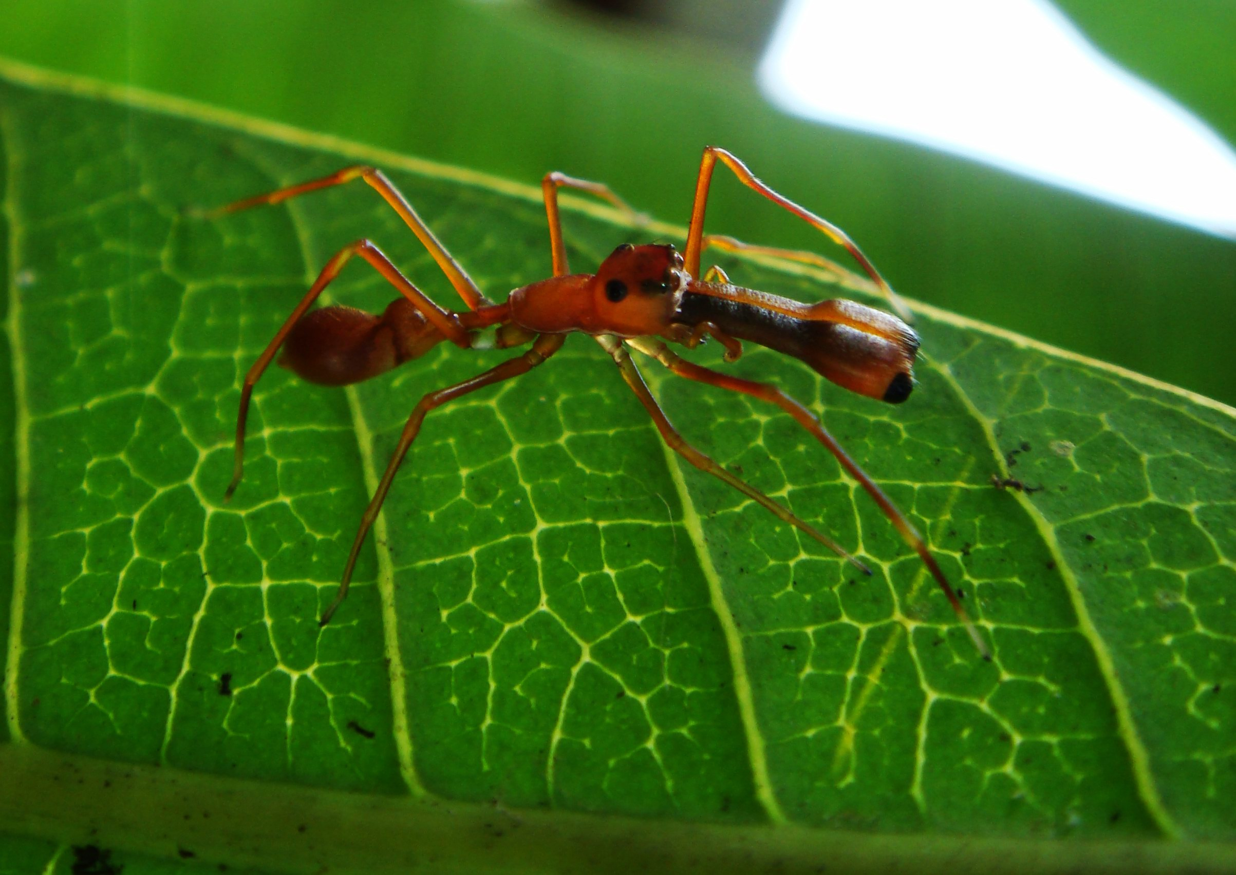 The Kerengga Ant-like Jumper. Myrmarachne plataleoides is a jumping spider that mimics the Kerengga or weaver ant (Oecophylla smaragdina) in morphology and behaviour. This species is found in India, Sri Lanka, China and many parts of Southeast Asia.